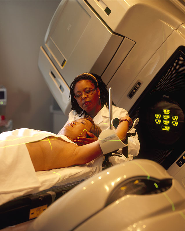 An Hispanic woman is being prepared for radiation therapy by an African-American female radiation therapist. The patient is placed in various positions. This is one of a series of six photos. Reuse Restrictions: None - This image is in the public domain and can be freely reused. Please credit the source and/or author listed above.